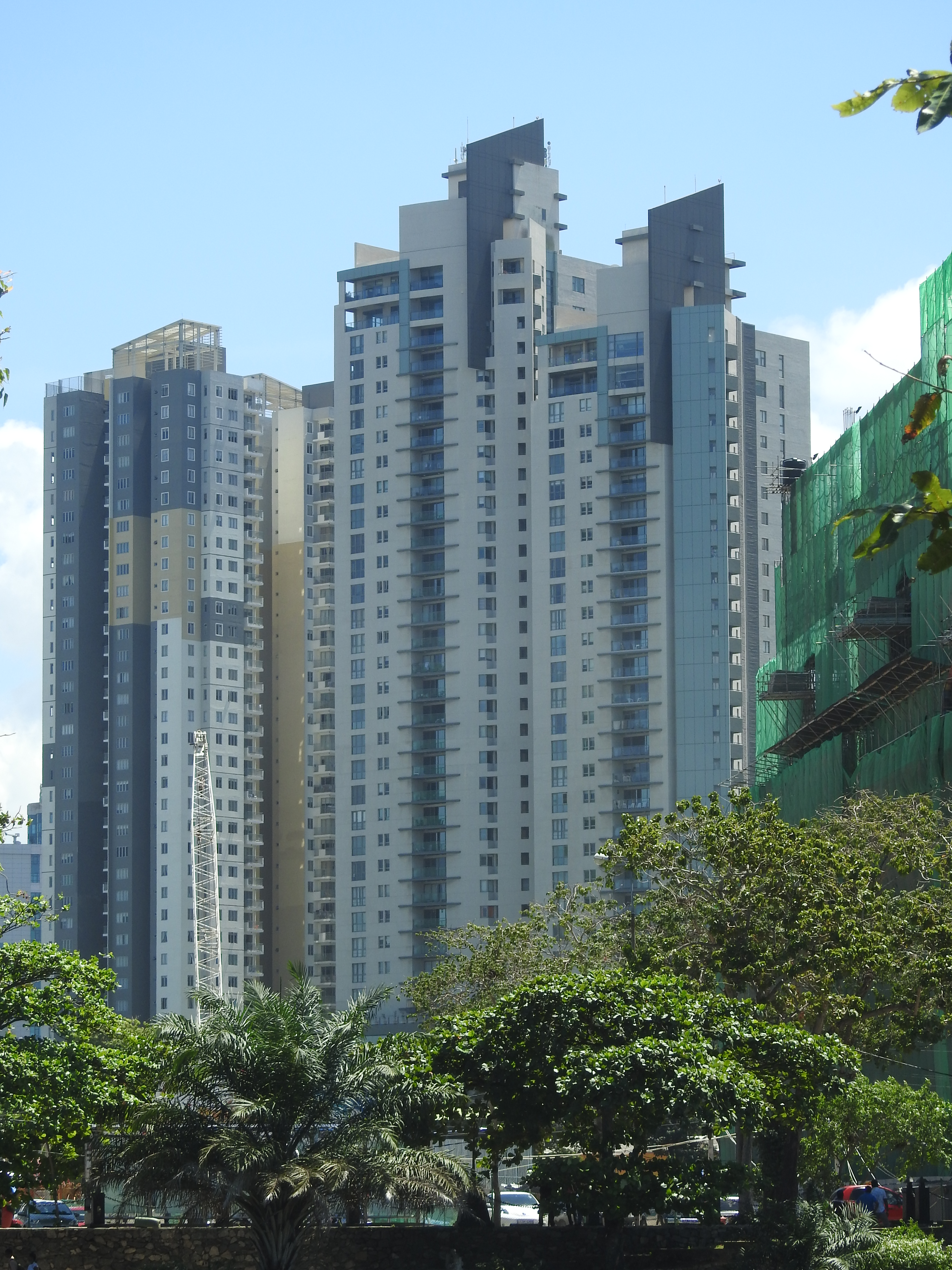 Photos of current/future skyscrapers (and its surroundings) in Colombo, taken by User:Rehman and User:Azeez as part of a photowalk project by Wikimedia Community User Group Sri Lanka. The photowalk covered most of the tallest structures in Colombo that are either completed or under construction. Further information on the subject(s) of the photograph can be found in the category/ies of this file.